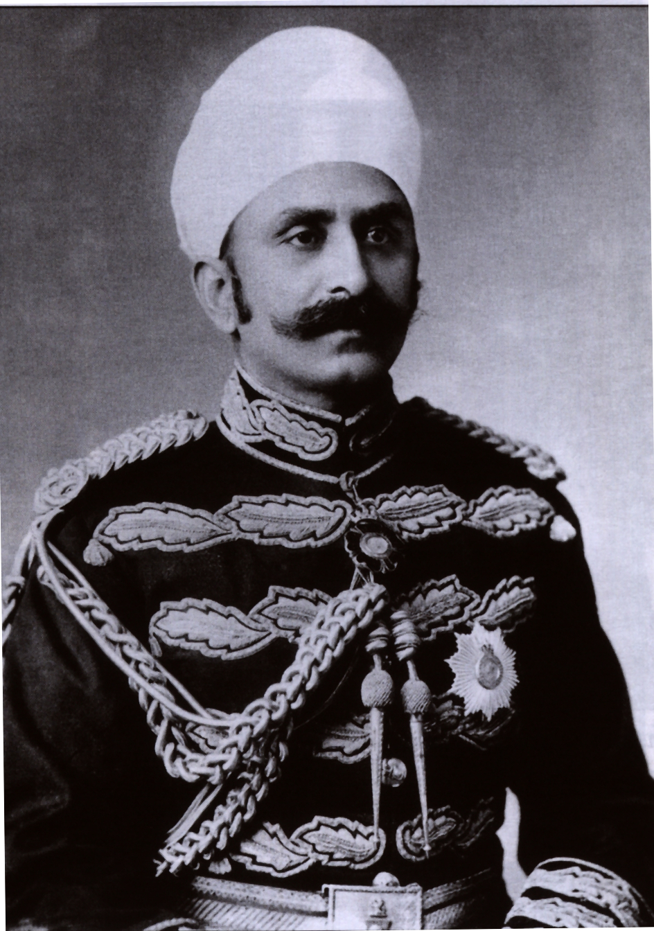 His Excellency Highness Maharaja Sir Kishen Pershad Bahadur, in uniform as commander of the state forces of the Indian state of Hyderabad. (He was prime minister twice as well).